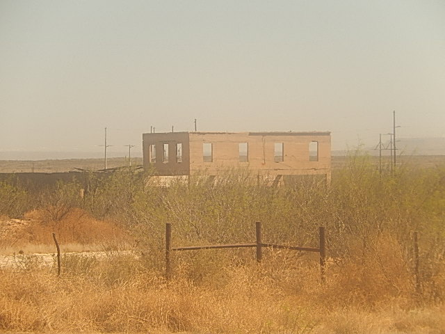 I took photo with Nikon camera of abandoned building in Girvin, TX.